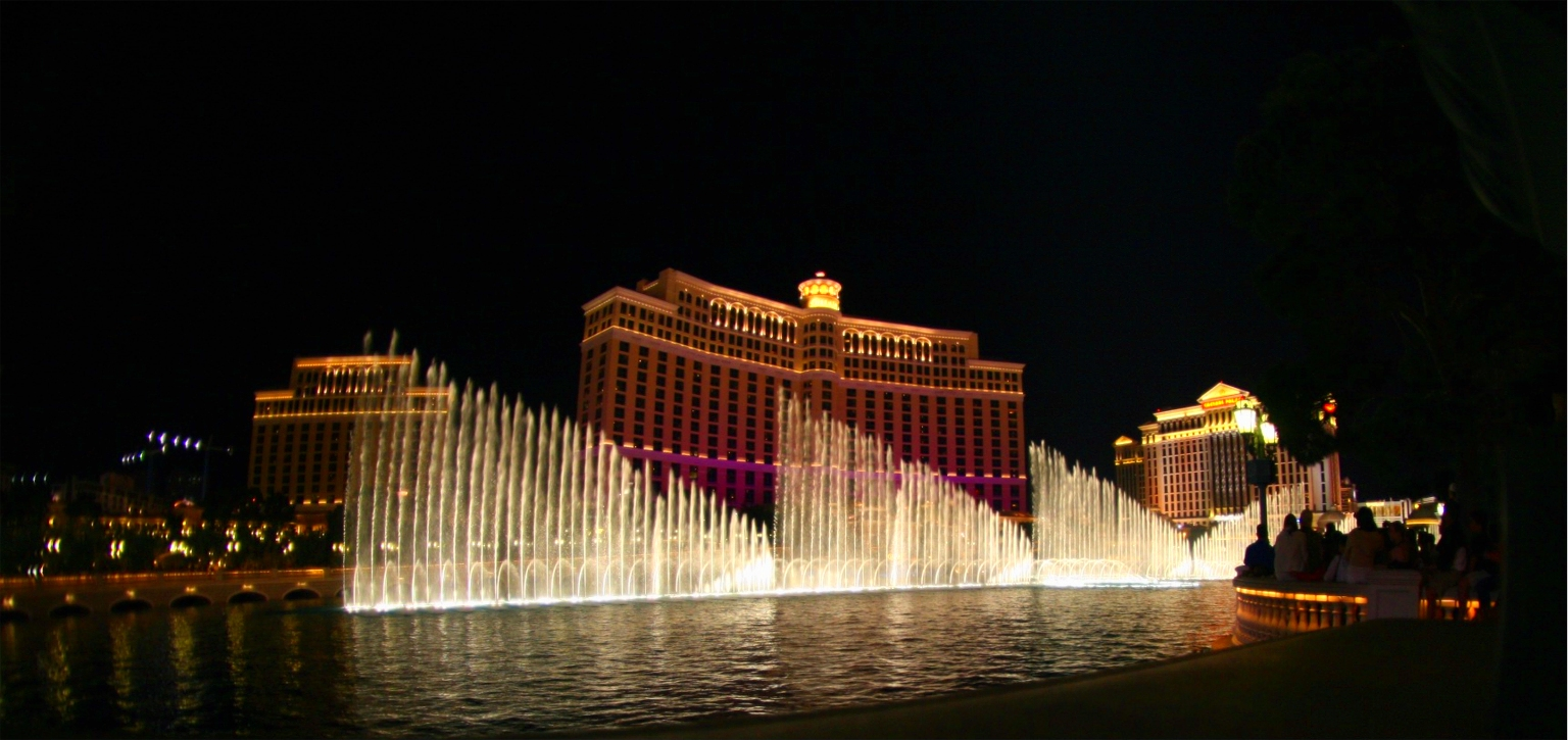 Fountains show at Bellagio, Las Vegas